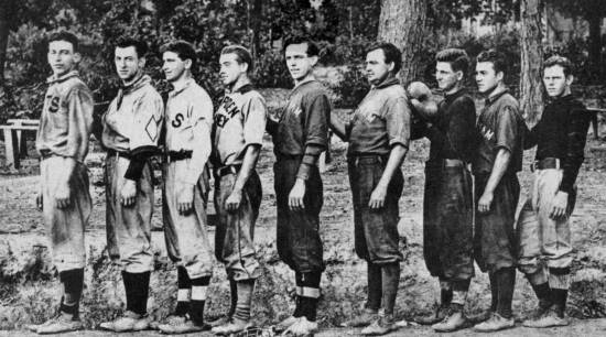 The baseball team 'the Countyseat Giants' in 1912 in Chatham, Virginia. The photograph shows the starting nine players for the team. In 1912, the team had a record of 14 wins and 2 losses, and the games attracted big crowds at the Chatham ballfield, which was located across the street from Mansfield, Chatham's oldest remaining residence.